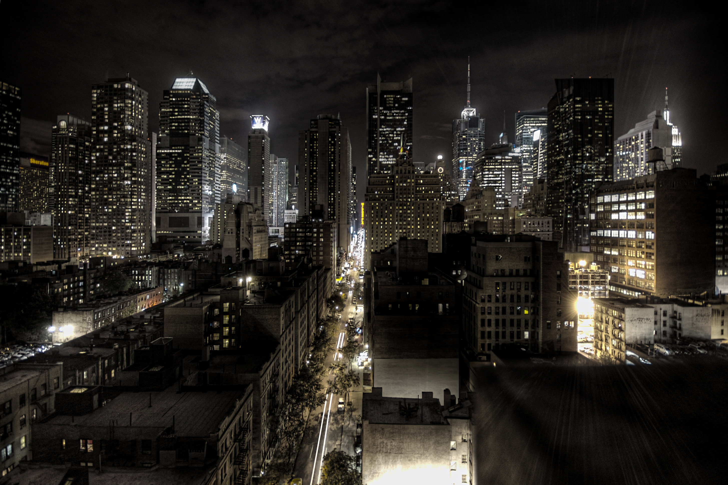 New York City at night, photographed using the HDR technique.